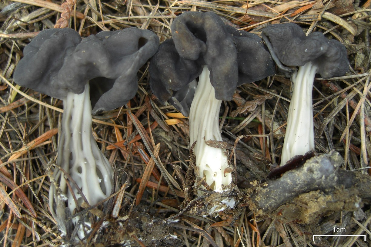 Helvella vespertina 20090929.44 US, MT, Cabinet Mountains, Bull River